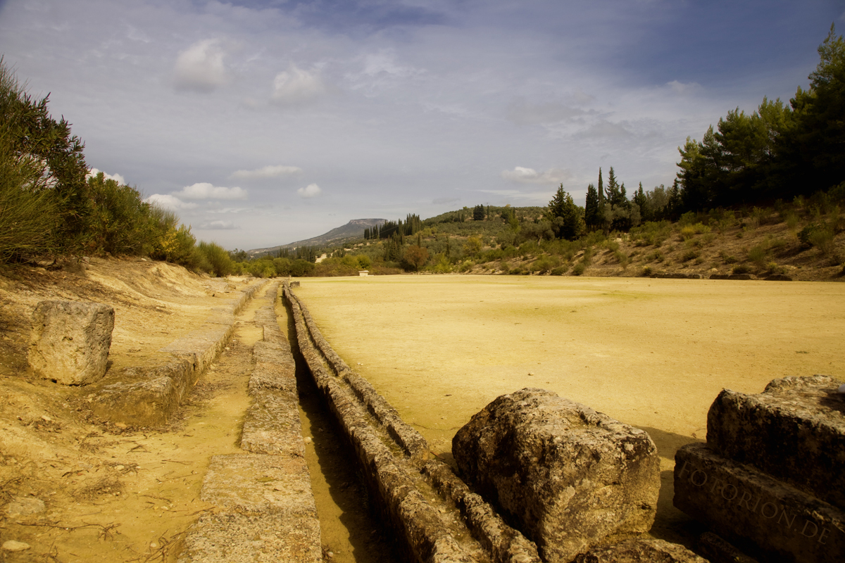 The ancient stadion of Nemea.